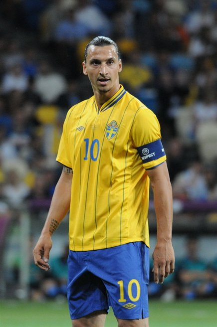 Zlatan Ibrahimović at the Euro 2012 match against England